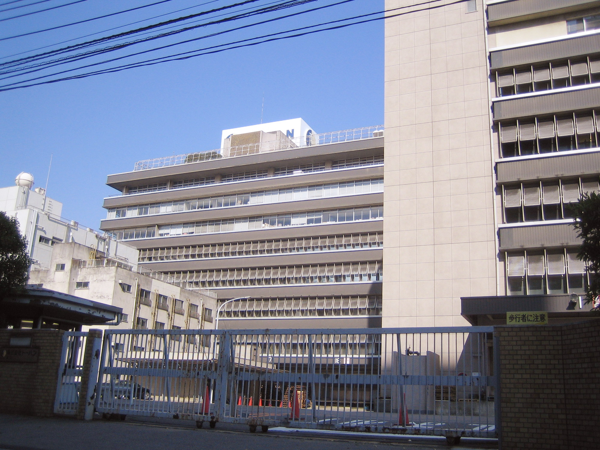 TOHAN co., ltd. (株式会社トーハン), in Shinjuku, Tokyo, Japan